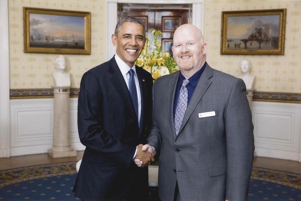 President Barack Obama and Oregon State Teacher of the Year, Brett Bigham.